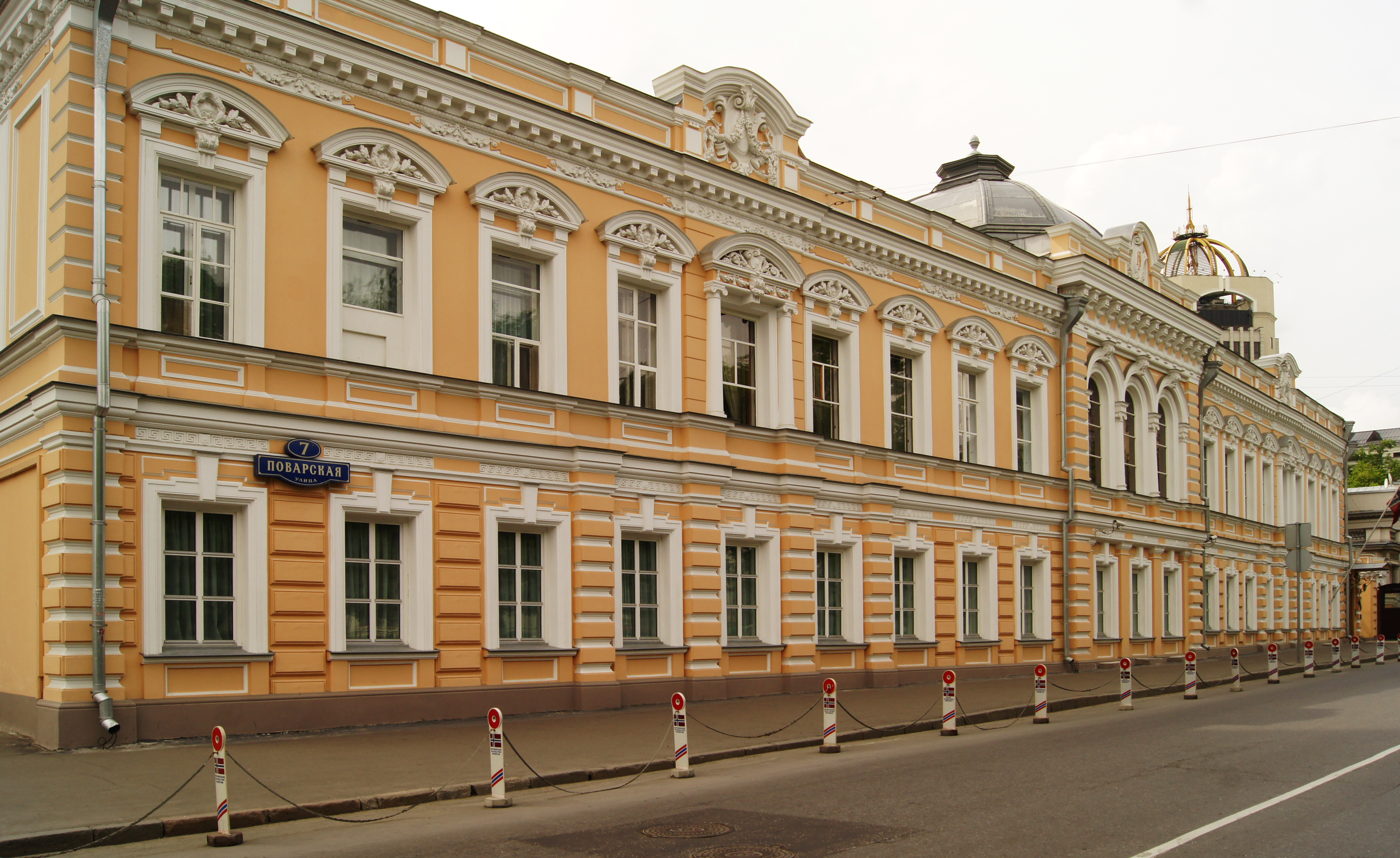 Povarskaya Street Moscow 7